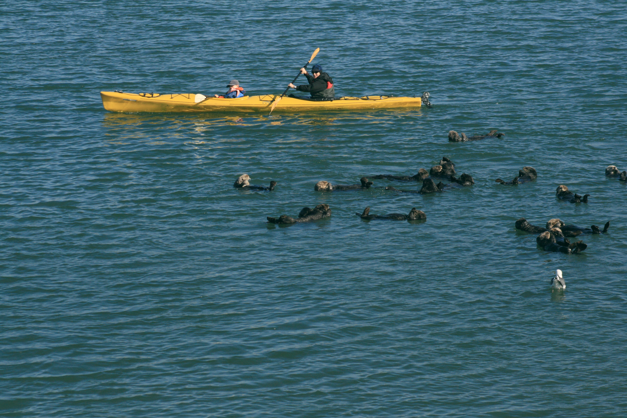 Sea Otters and kayak at Moss Landing, California.